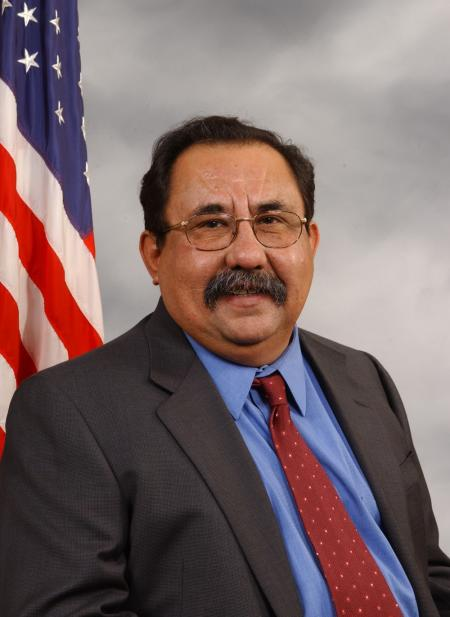 Raúl Grijalva, member of the United States House of Representatives.